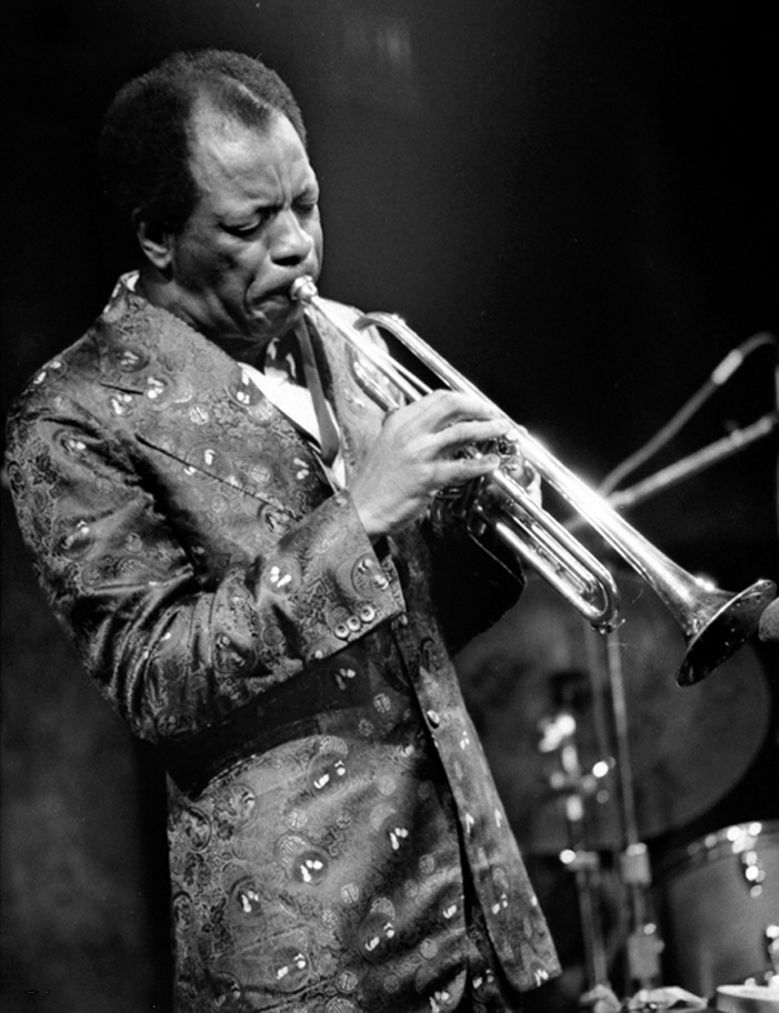 Ornette Coleman at Great American Music Hall, San Francisco 10/29/81. Photo by Brian McMillen /